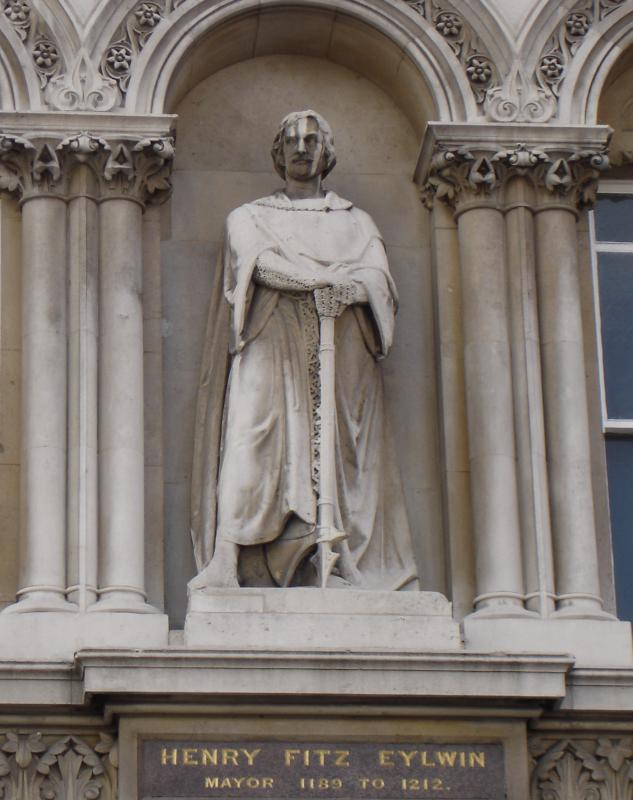 Statue Of Henry FitzEylwin, Holborn Viaduct, London, England